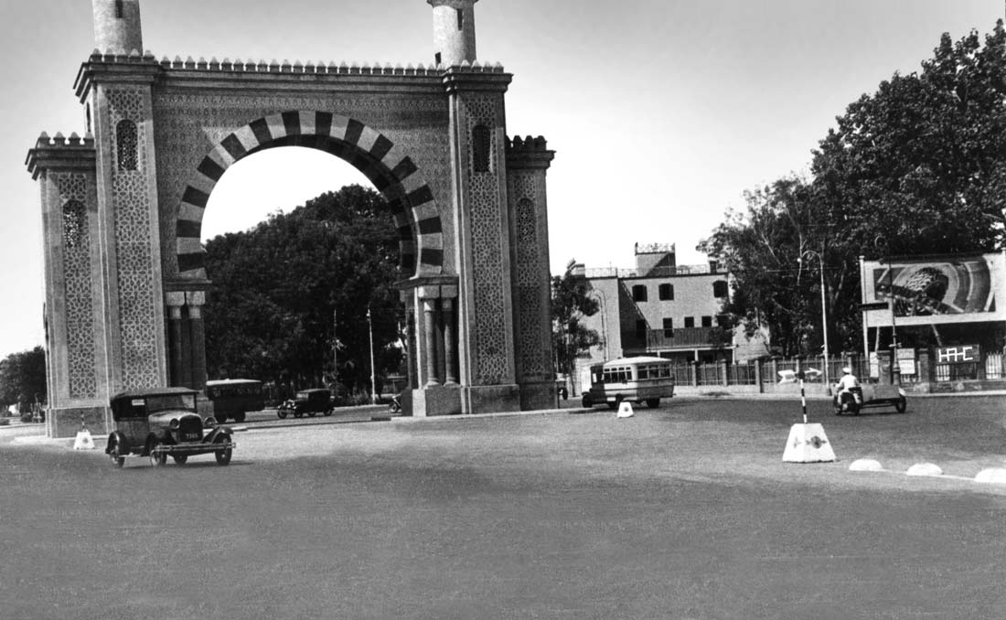 A moorish arch in the city of Lima, Peru